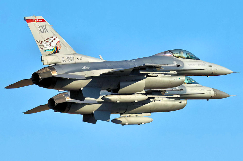 125th Fighter Squadron - General Dynamics F-16C Block 42E Fighting Falcon 89-2017